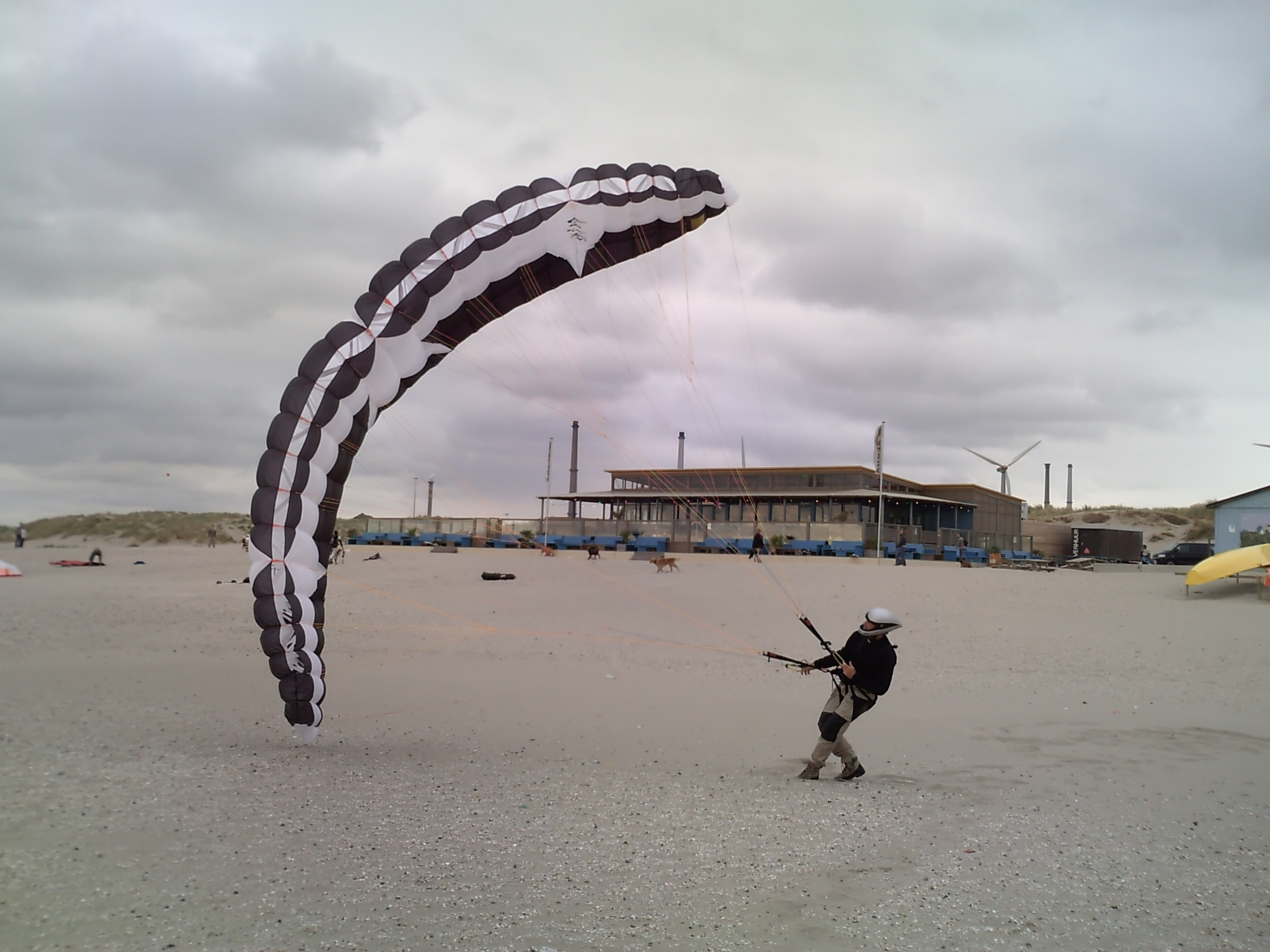 example of parakiting